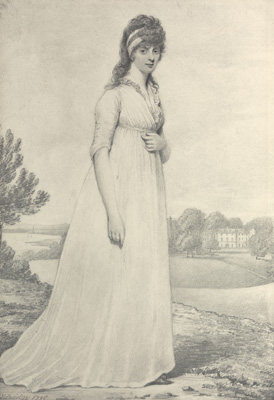 Portrait of Theresa Villiers (1775-1856), name before marriage Hon. Theresa Parker, wife of George Villiers MP (1759–1827)